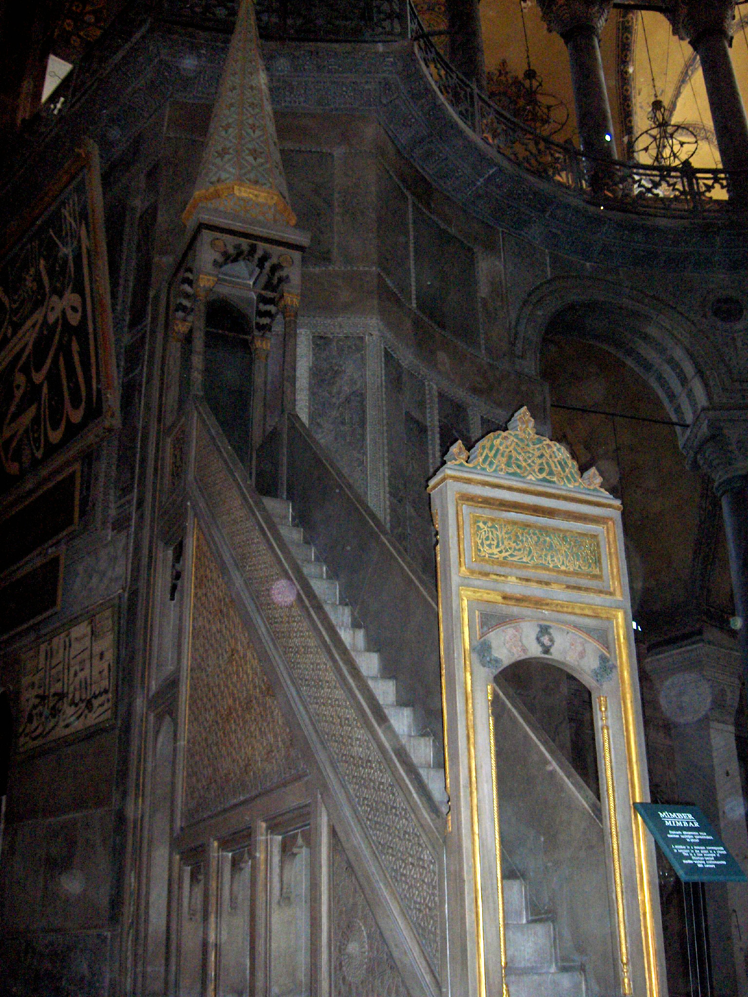 Hagia Sophia ; inside view : mimbar (16th c.); Istanbul, Turkey